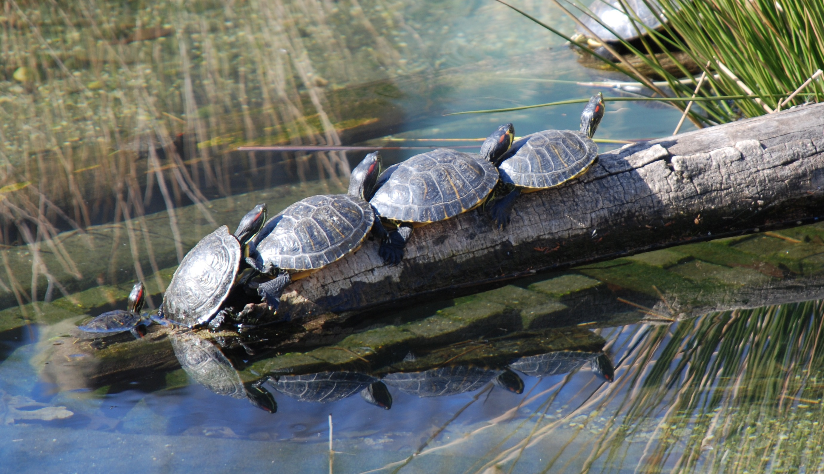 Reptiles in Smithsonian National Zoological Park: Trachemys scripta (Pond Sliders). Most of these individuals are hybrids or intergrades between Eastern yellow-belly sliders and Red-eared sliders